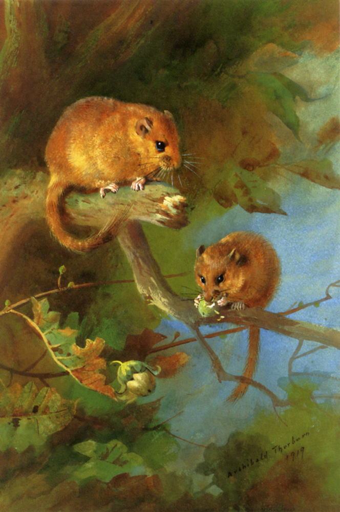 Dormice